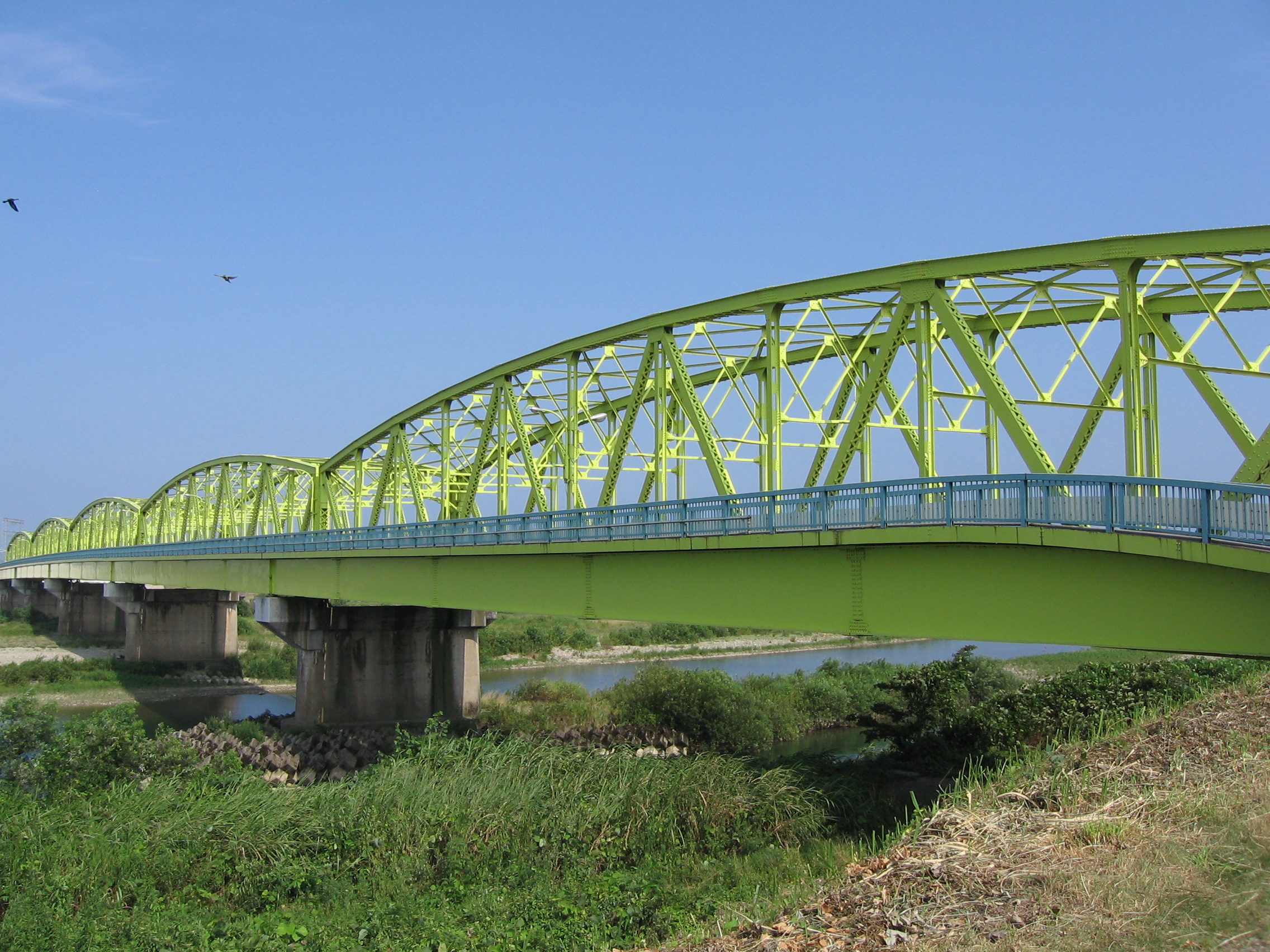 Takaoka Bridge